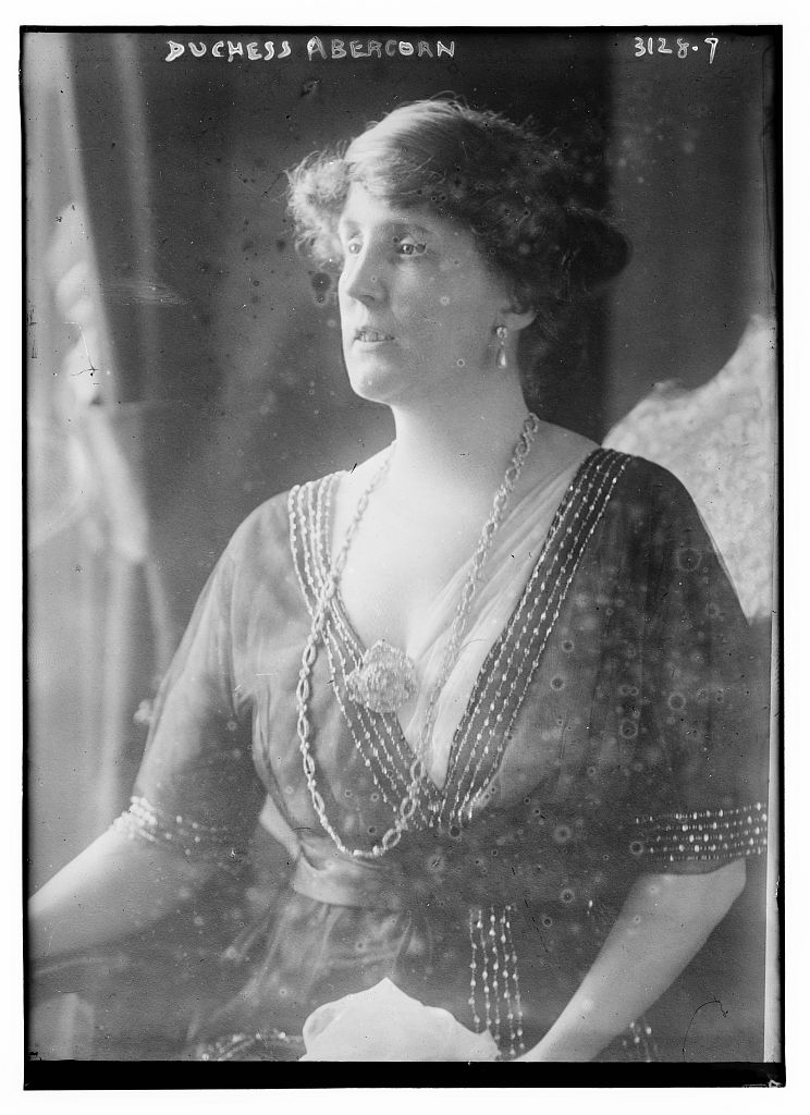 Rosalind Hamilton, Duchess of Abercorn, wife of the 3rd Duke of Abercorn, in circa 1914. The following information is verbatim from the Library of Congress item page linked below: Bain News Service, publisher. Duchess Abercorn [between ca. 1910 and ca. 1915] 1 negative : glass ; 5 x 7 in. or smaller. Notes: Title from unverified data provided by the Bain News Service on the negatives or caption cards. Forms part of: George Grantham Bain Collection (Library of Congress). Format: Glass negatives. Repository: Library of Congress, Prints and Photographs Division, Washington, D.C. 20540 USA, General information about the Bain Collection is available at Persistent URL: Call Number: LC-B2- 3128-7